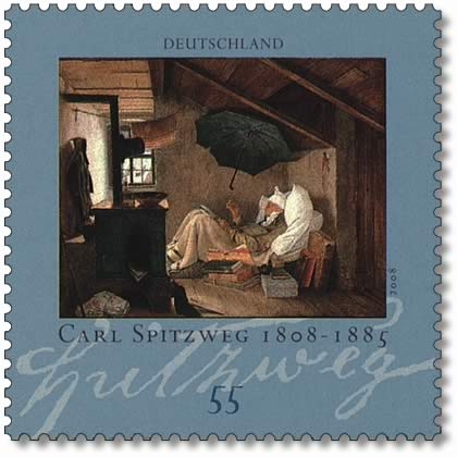 stamp for 200 years of birth of Carl Spitzweg, Painter (1808-1885) Motiv: Der arme Poet Ausgabepreis: 55 Cent